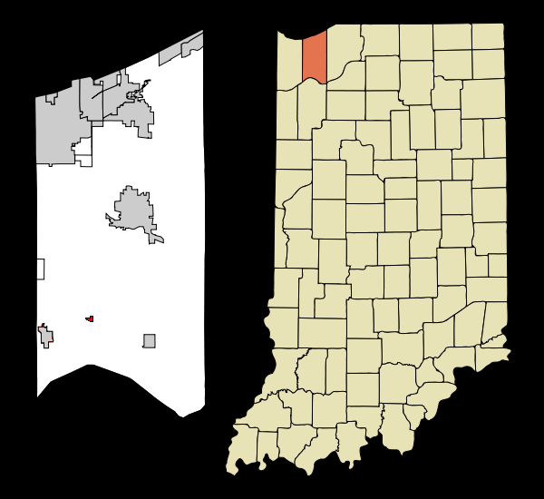 State and County map showing the location of Boone Grove, Indiana